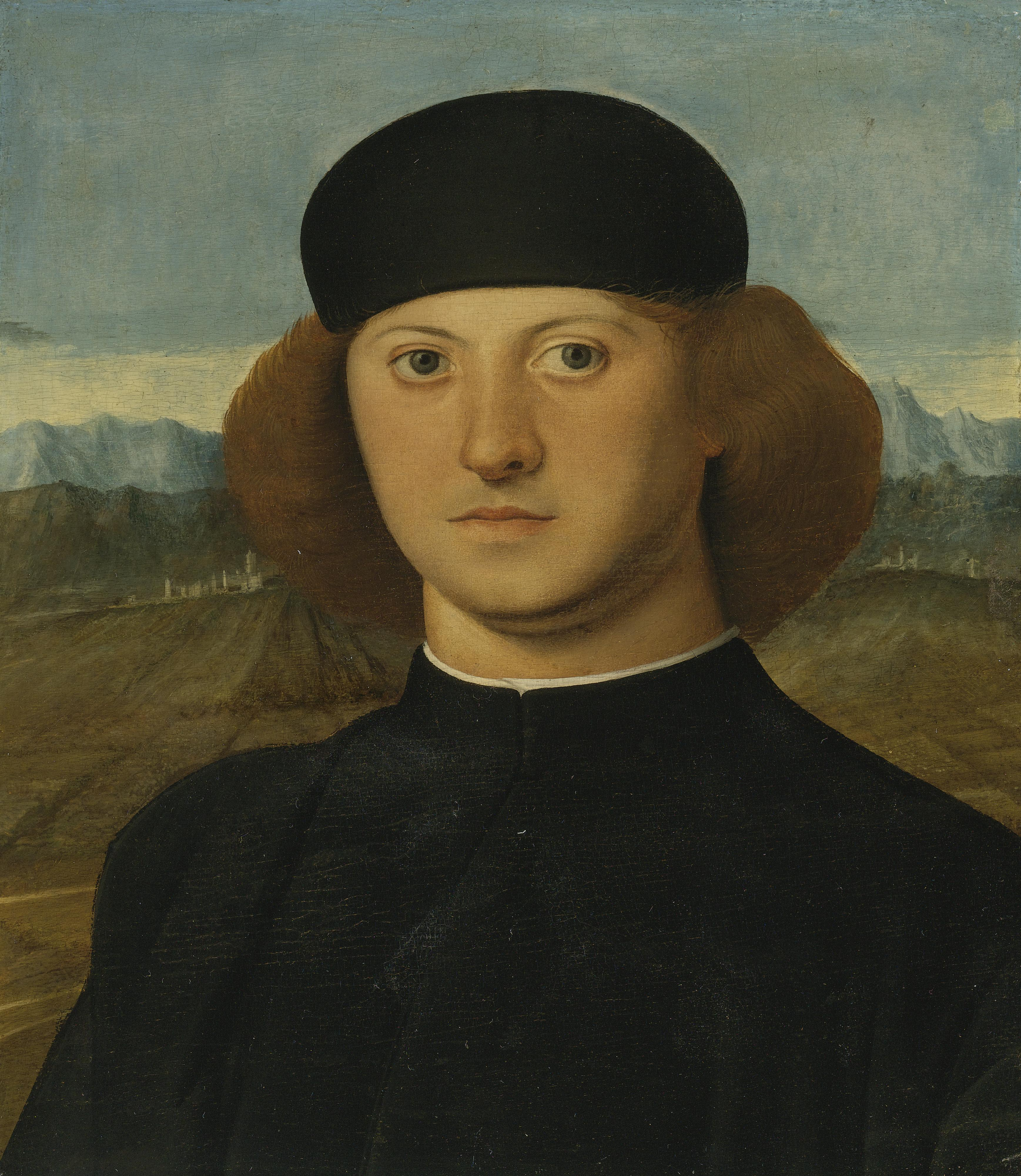 PORTRAIT OF A YOUNG MAN, THOUGHT TO BE ALVISE DE FRANCESCHI